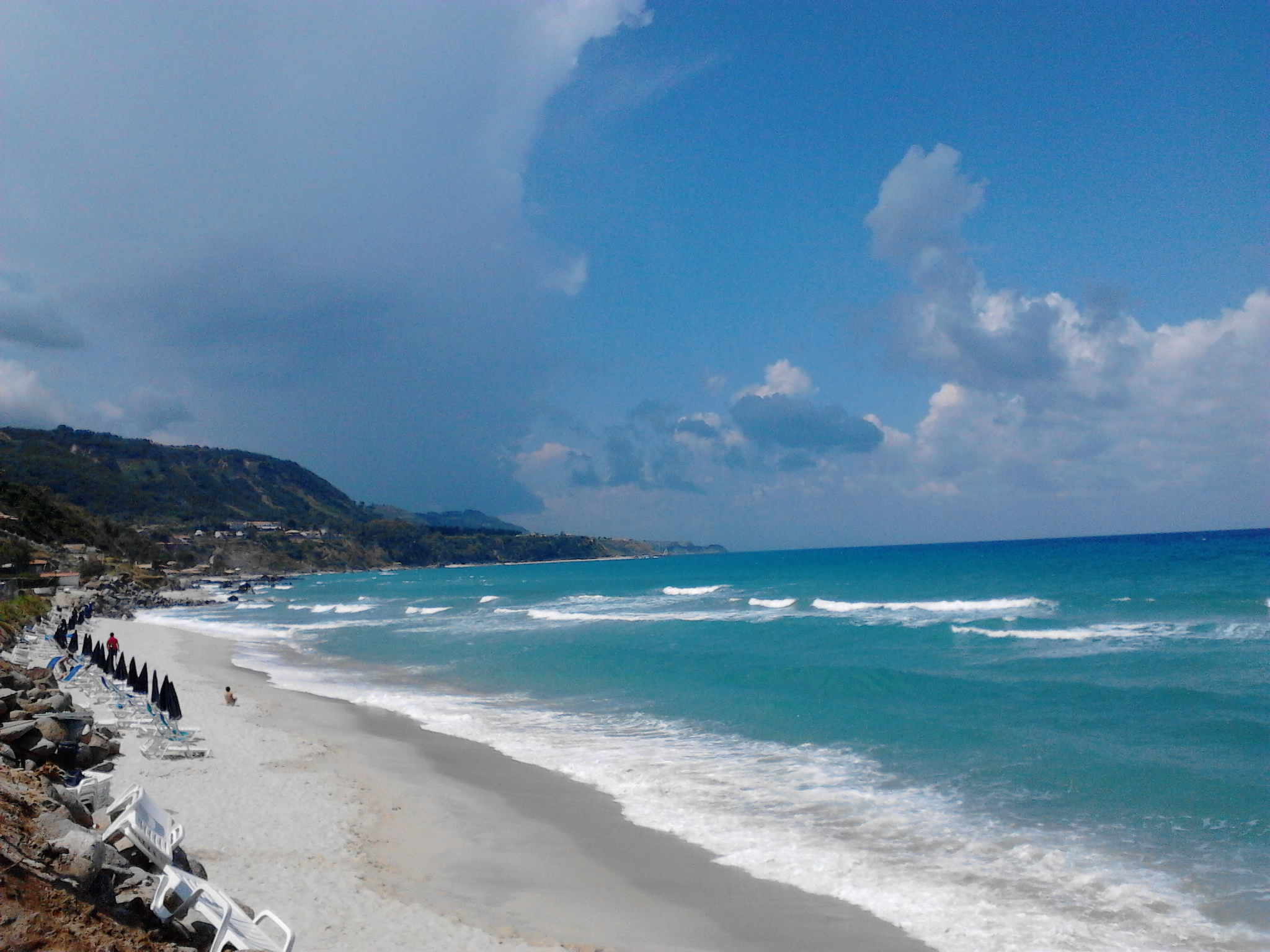 Beach in Parghelia ITALY